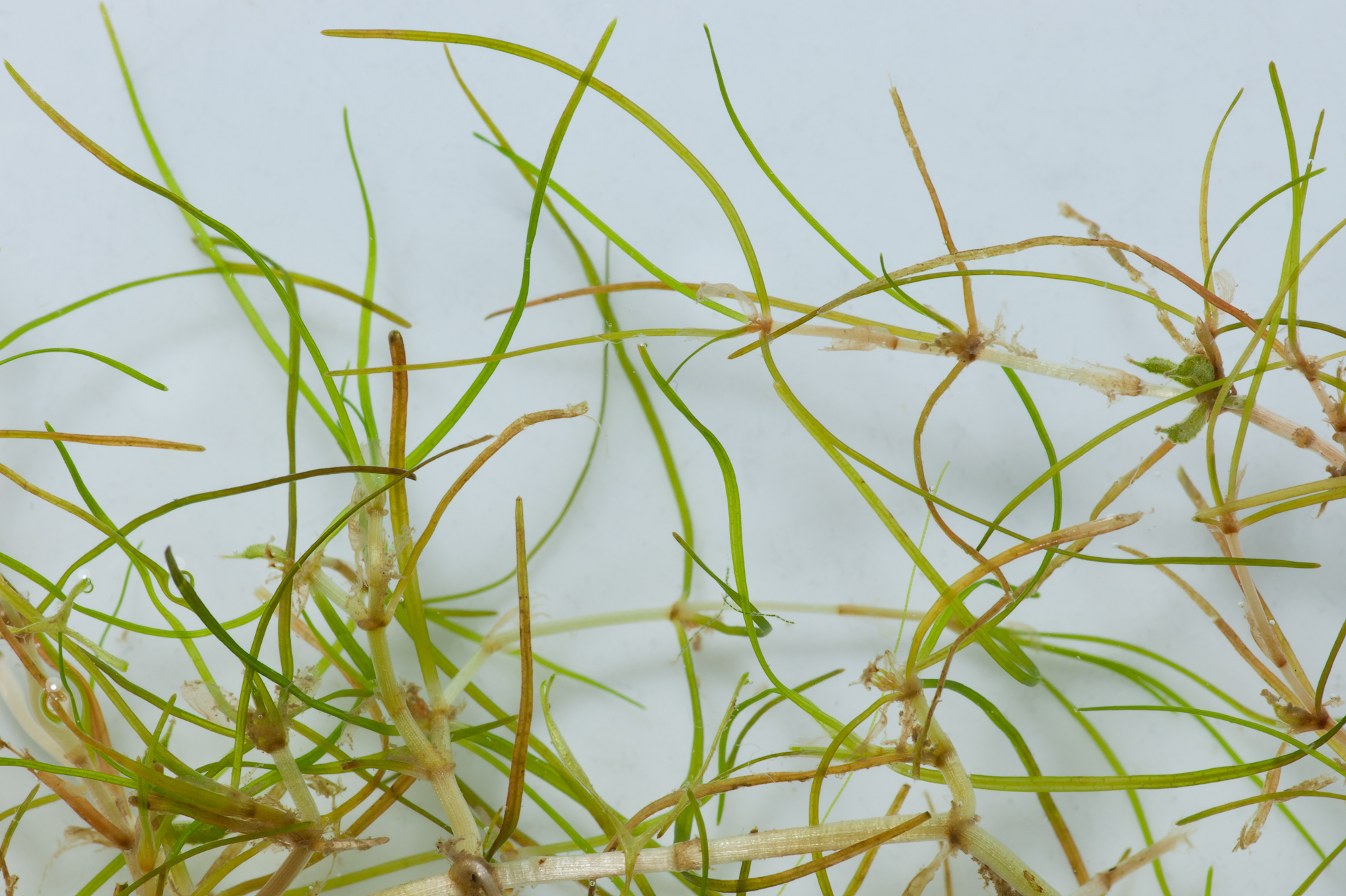 Close-up of the leaves from the water plant Zannichellia palustris ssp. palustris.